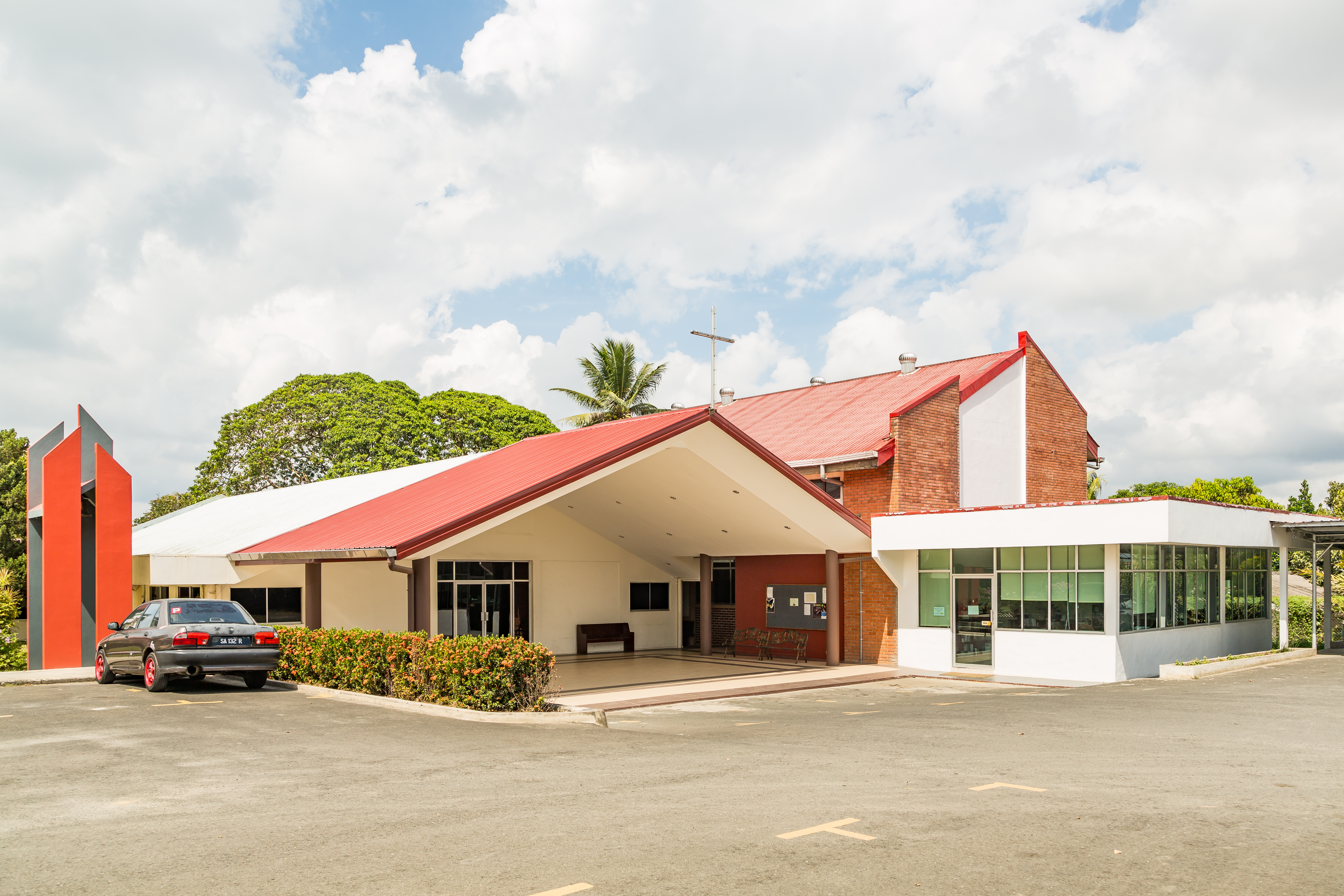 Lahad Datu, Sabah: St. Mark's Anglican Church (Gereja Anglikan St. Mark)